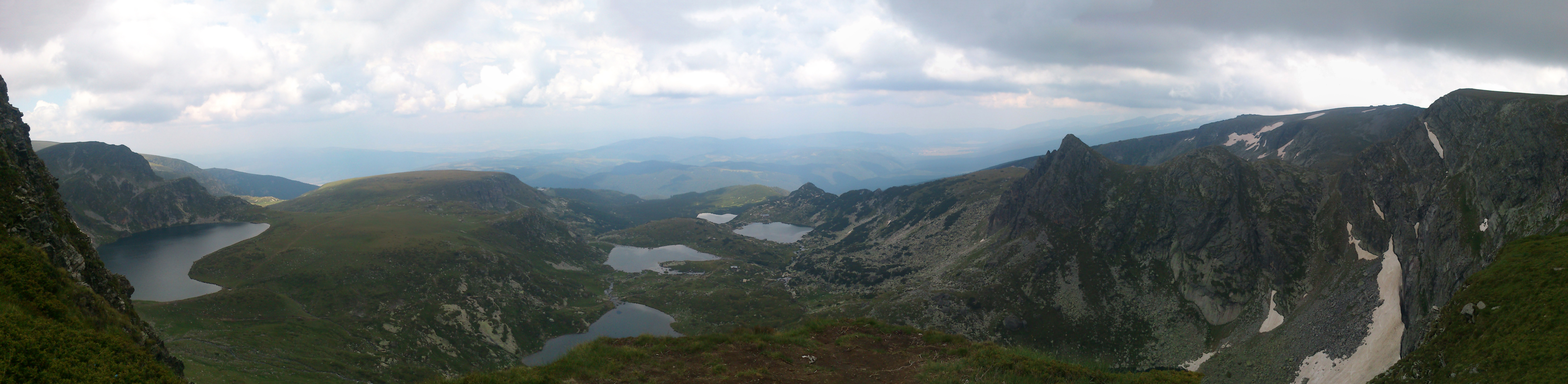 Rila Lakes, Rila, Bulgaria